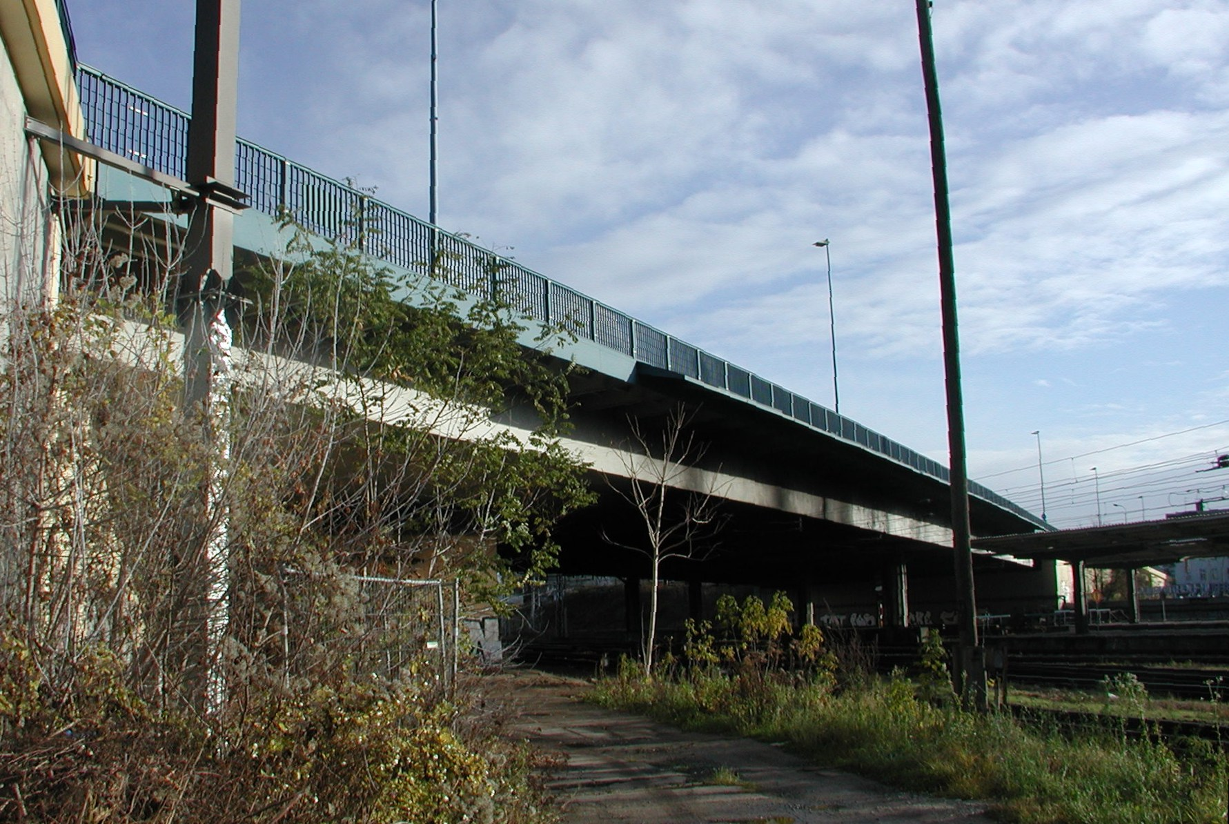 street bridge of Berlin-Lichtenberg, view from south